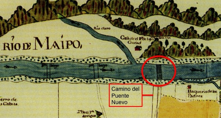 new bridge of the maipo river